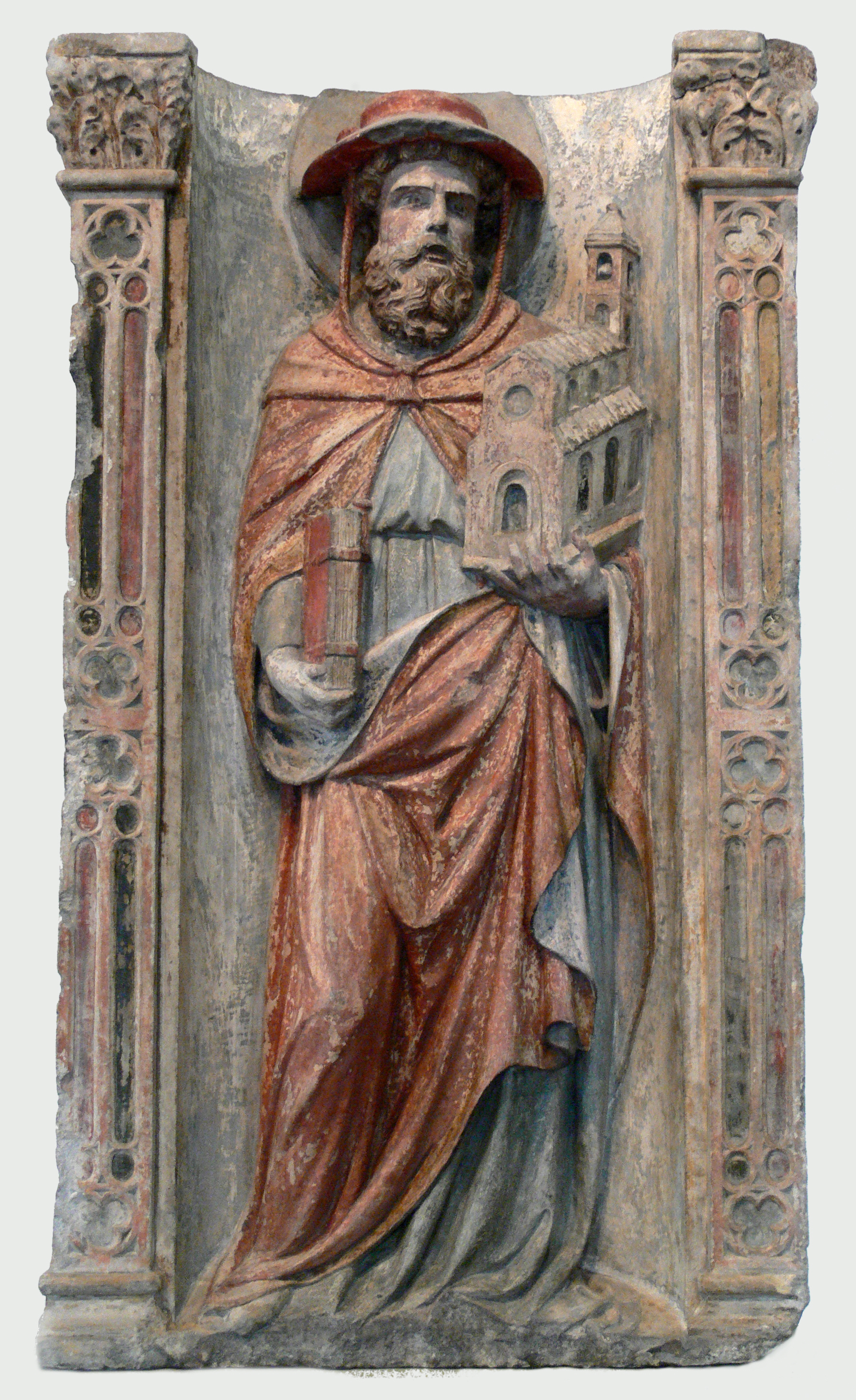 Filippo Solari and Andrea I Solari da Carona (fl. 2nd third of 15th century): Saint Jerome as Father of the Church, Northern Italy, mid-15th century, limestone, old colours; part of an altar. Skulpturensammlung (inv. no. 6/76, acquired in 1976), Bode-Museum, Berlin.